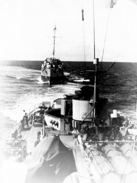 The U.S. Navy destroyer escort USS O'Flaherty (DE-340) steaming ahead of the flagship of Escort Division 64 (CORTRON 64), USS John C. Butler (DE-339), off Ulithi Atoll, in August 1945. The torpedo tubes of O'Flaherty are visible in the foreground.